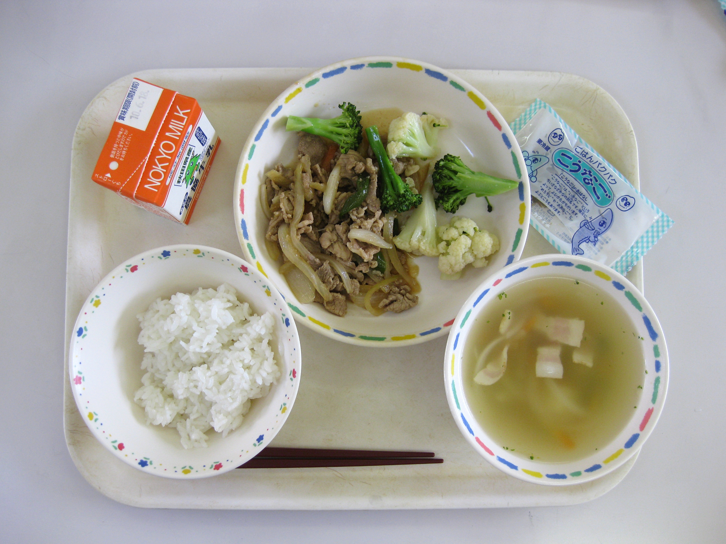 This school lunch has rice, miso soup, a carton of milk, a packet of small dried fish, and pork fried with vegetables. This was photographed at a public elementary school in Japan.